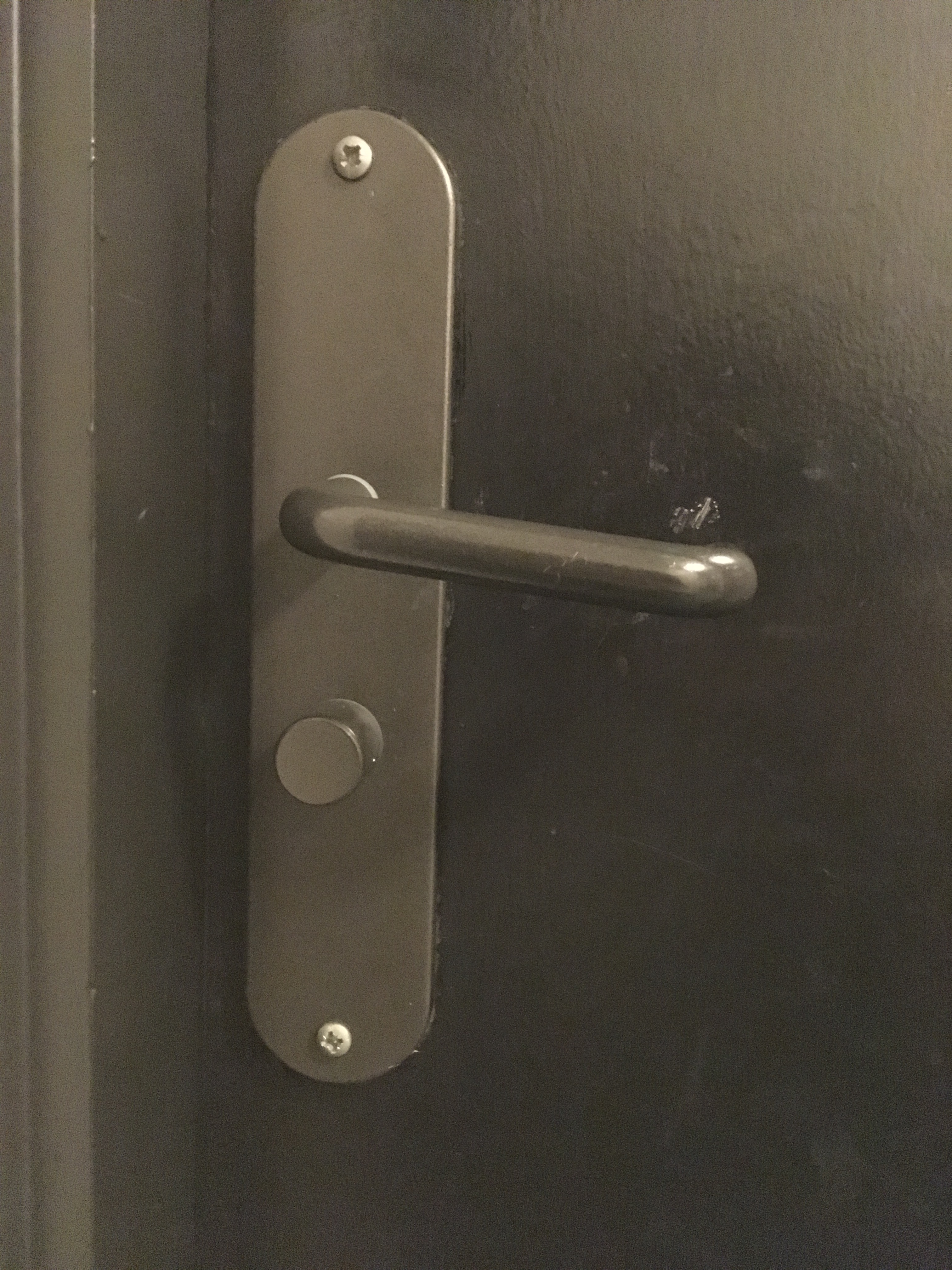 Picture of a common door handle found in university halls.